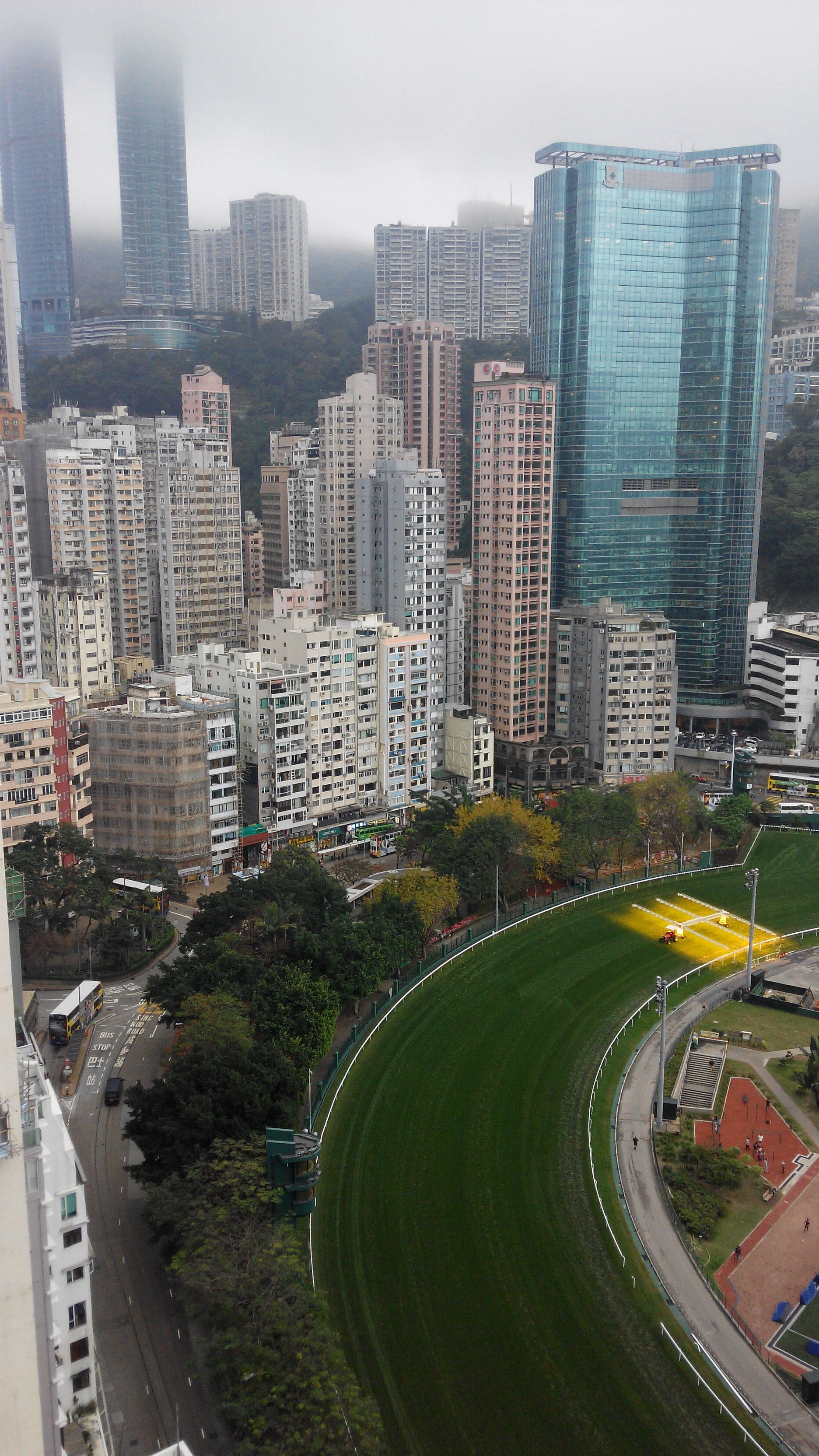 Happy Valley, Hong Kong